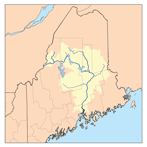 This is a map of the Penobscot river watershed. I, Karl Musser, created it based on USGS data.